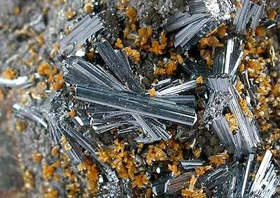 Hutchinsonite Locality: Quiruvilca Mine (La Libertad Mine; ASARCO Mine), Quiruvilca District, Santiago de Chuco Province, La Libertad Department, Peru (Locality at ) Size: 7.2 x 4.8 x 2.8 cm. A VERY RICH specimen with SHARP crystals to 6mm of lustrous, glassy hutchinsonite, a very rare species containing thallium as a primary element. Ex. Charlie Key Collection.